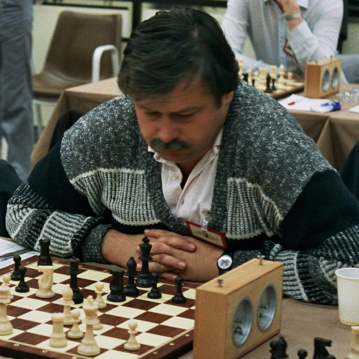 Vlastimil Hort, Chess Olympiade 1988 in Thessaloniki, Photographer Gerhard Hund.